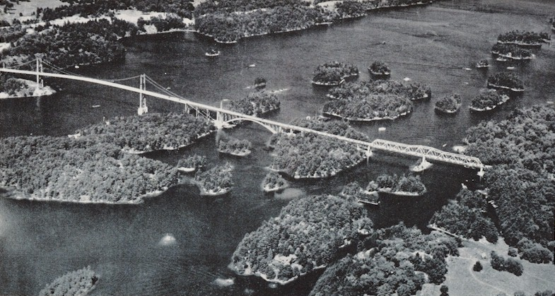 The Thousand Islands - Ivy Lea Bridge shortly after it opened.